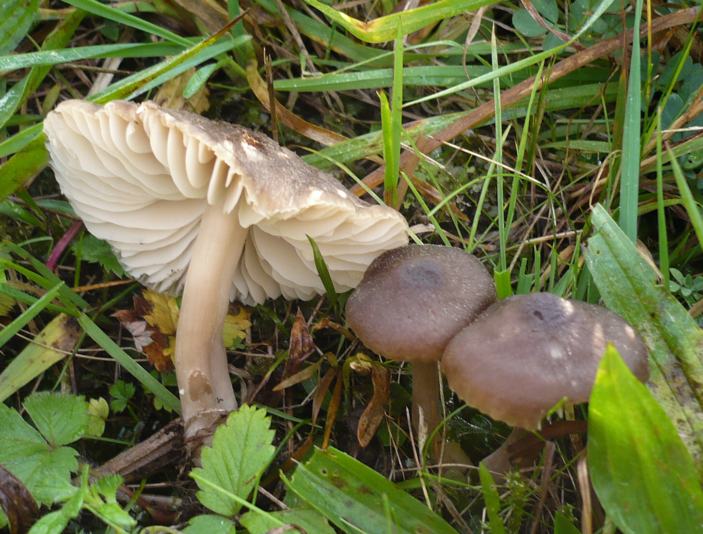 Hygrocybe nitrata Location: Tisovec, Czech Republic For more information about this, see the observation page at Mushroom Observer.